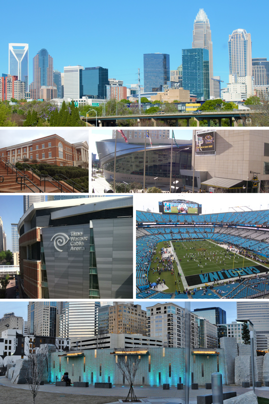 This is a collage to serve for the purpose of an up-to-date perspective of Charlotte, North Carolina.